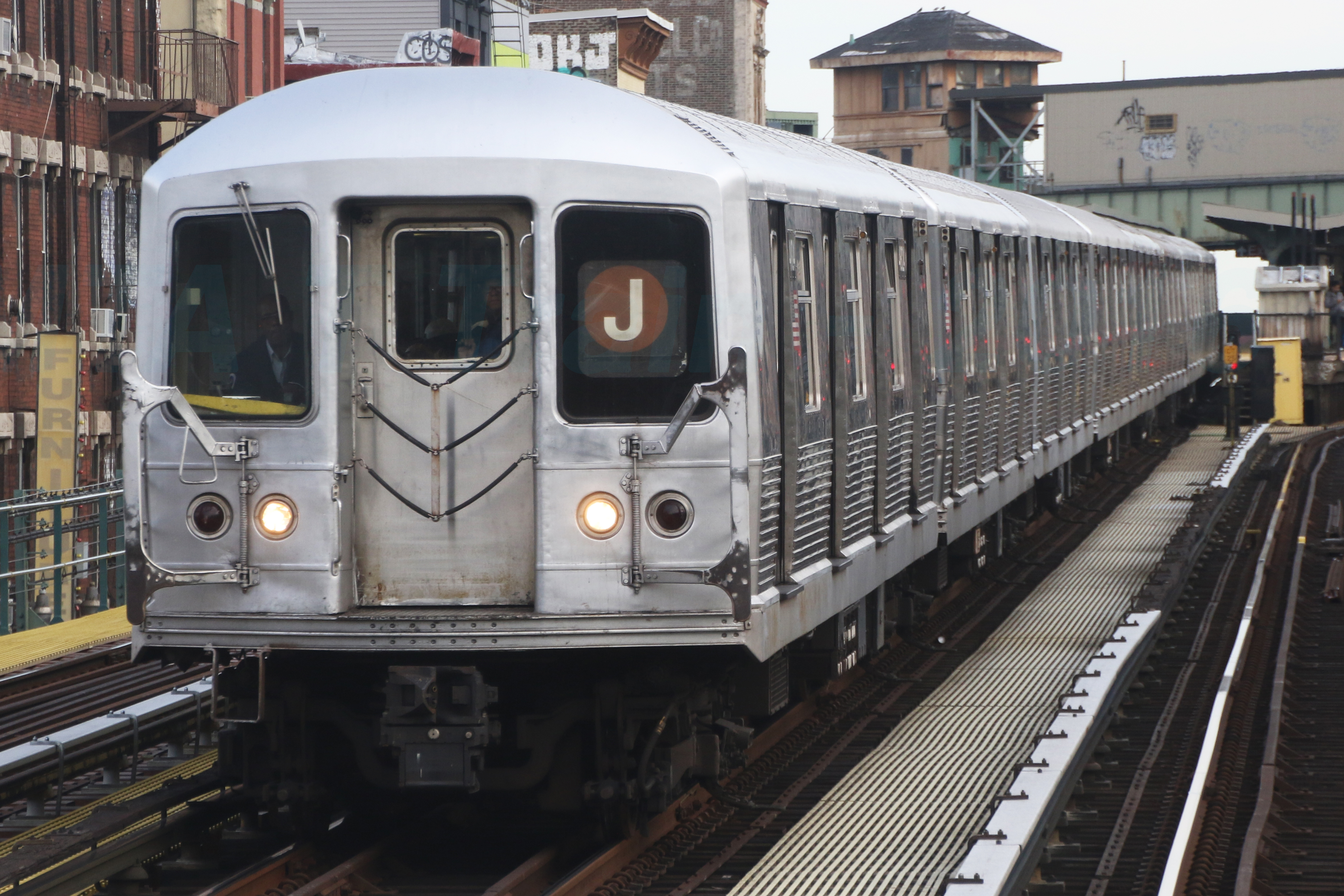 Broad St-bound MTA NYC Subway J train of St Louis Car R42 cars leaving Myrtle Ave.